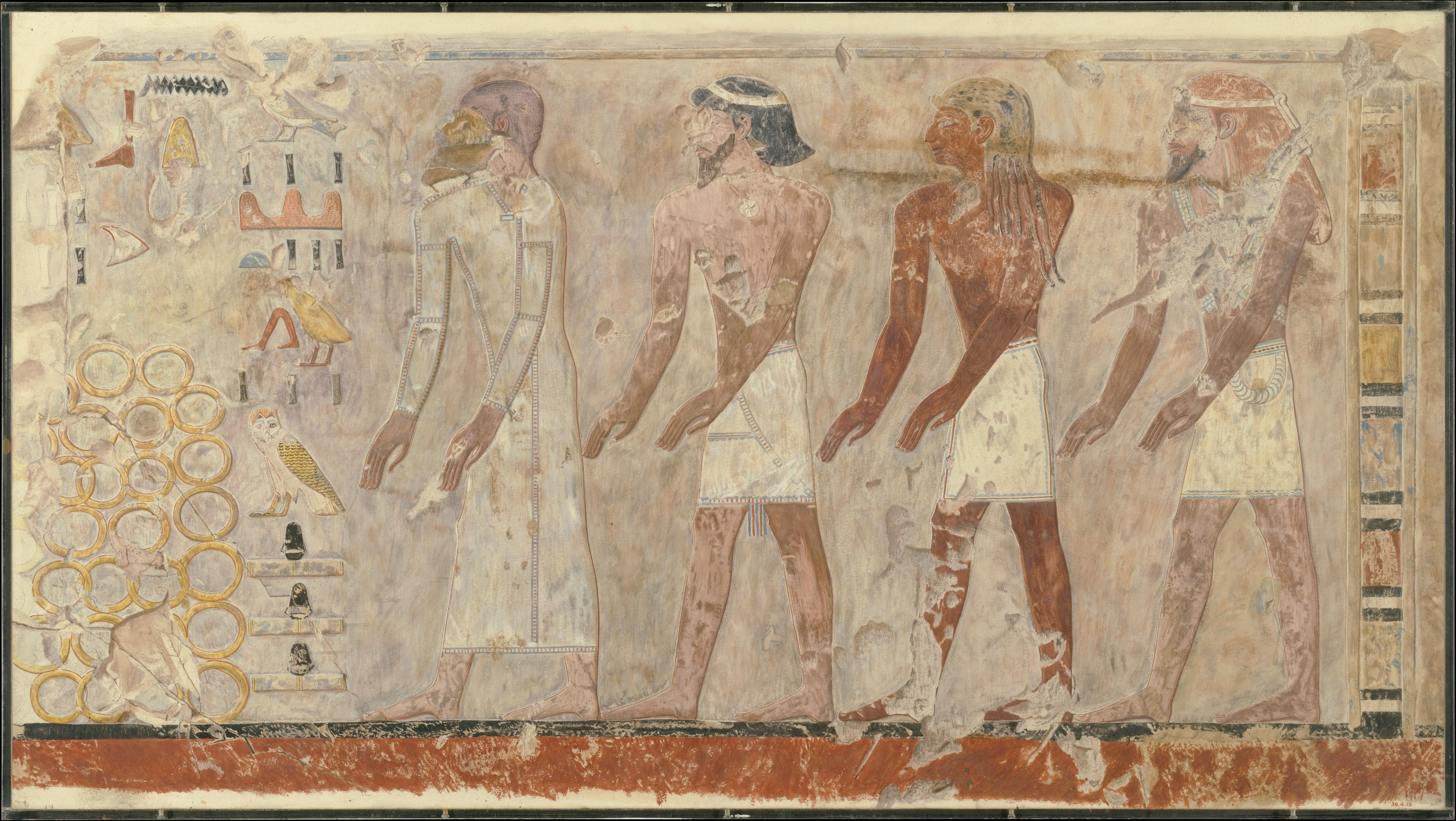 Facsimile, Puyemre (TT 39), foreigners